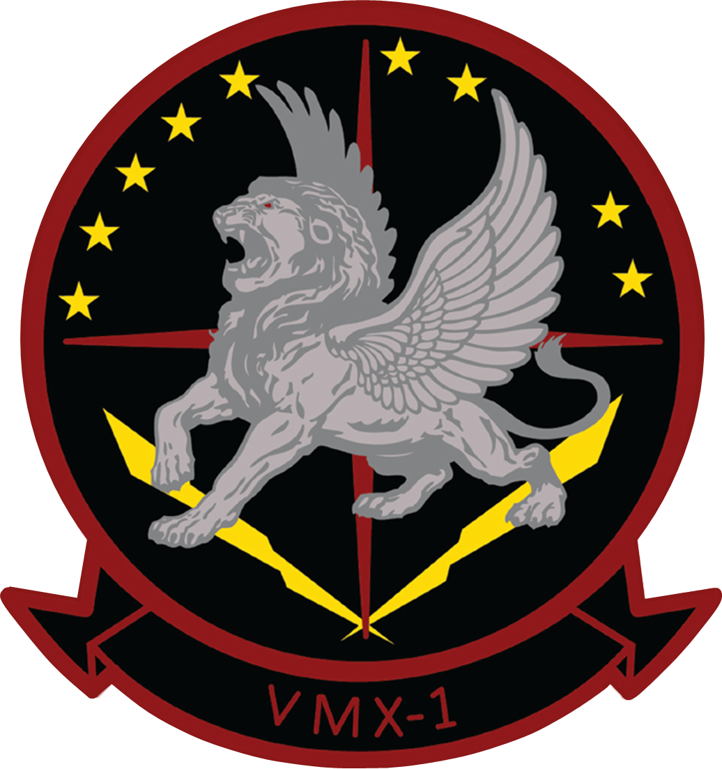 Current Logo of Marine Operational Test and Evaluation Squadron 1 (VMX-1)